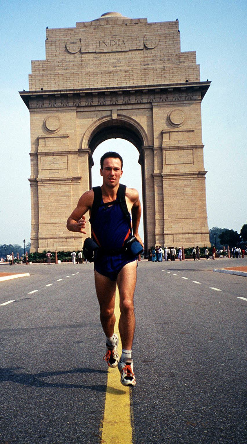 Robert Garside begins around-the-world run from the monument of India Gate, New Delhi, India.